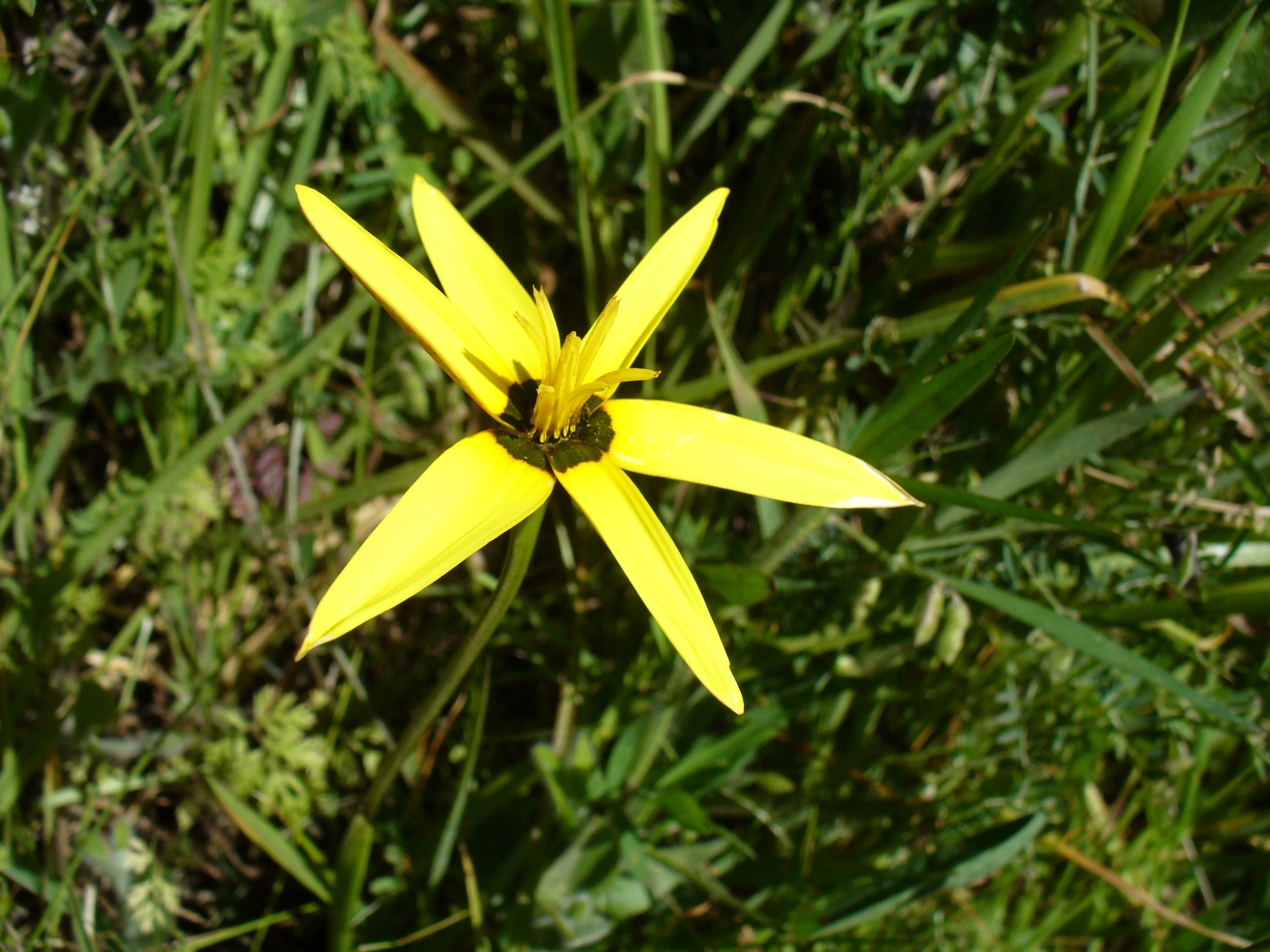 Star flower yellow form. Devil's Peak, Cape Town